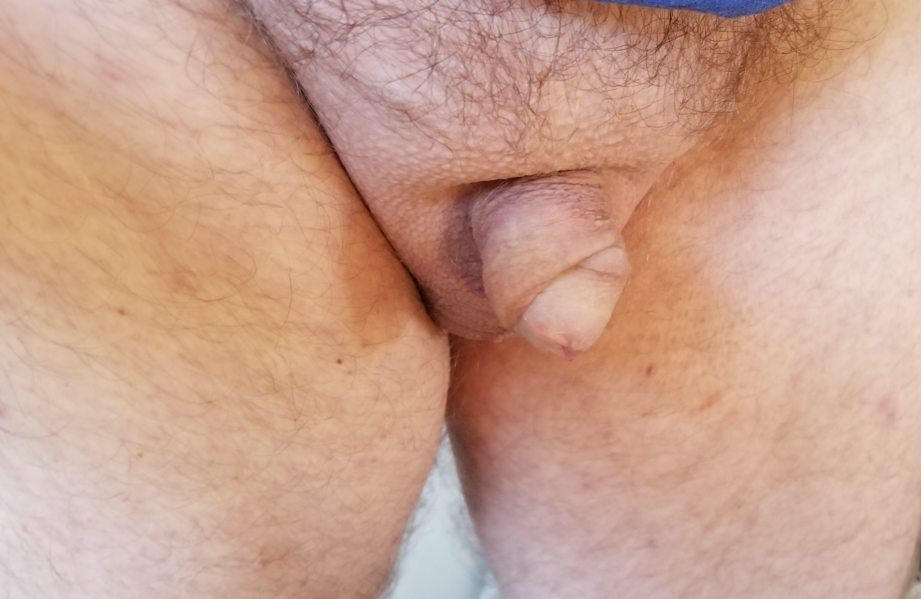 Micropenis in adult University student. Hypogonadism is presented.